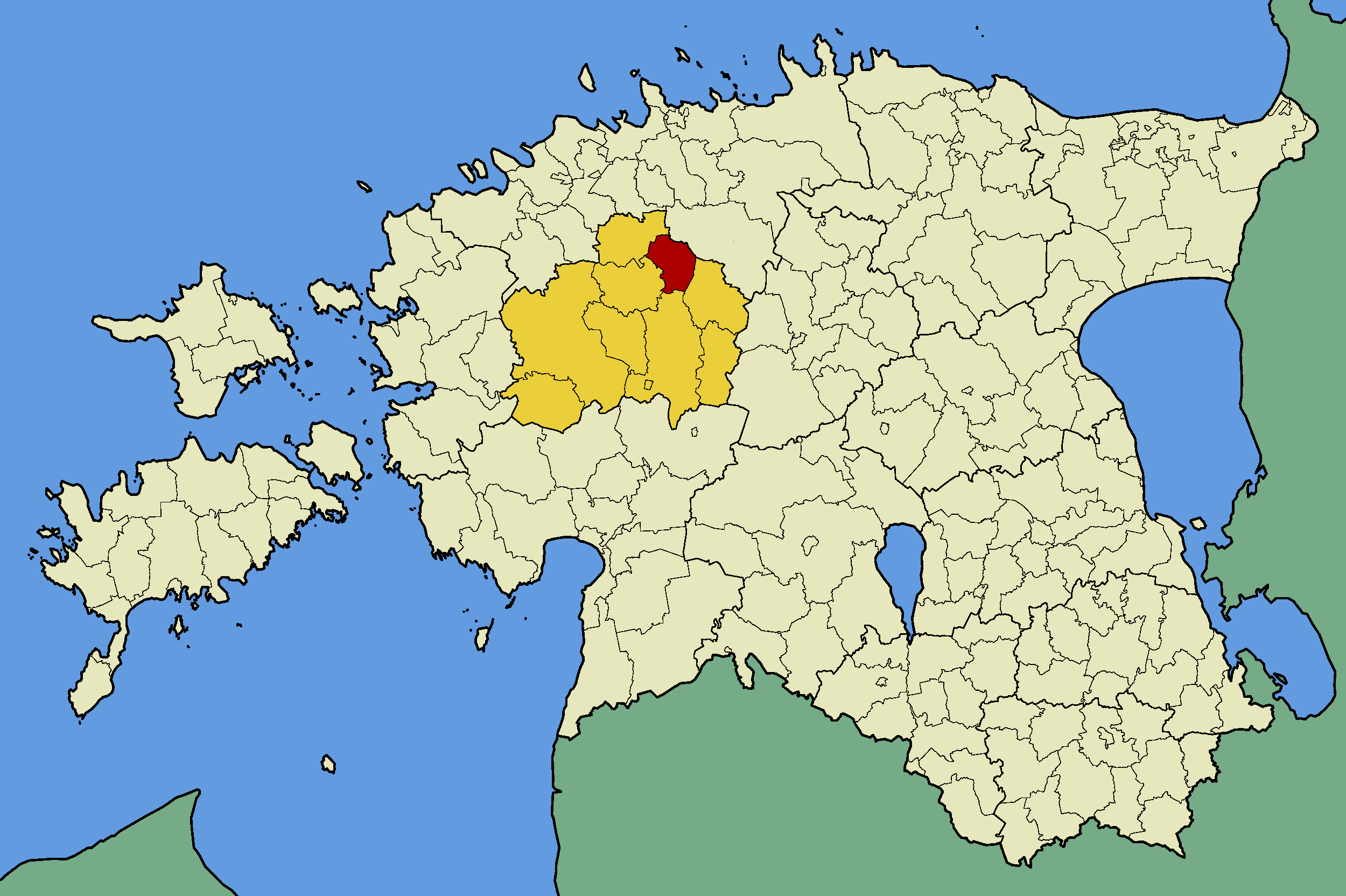 Map of Estonia with borders of municipalities (parishes). Rapla county and Juuru municipality emphasized.